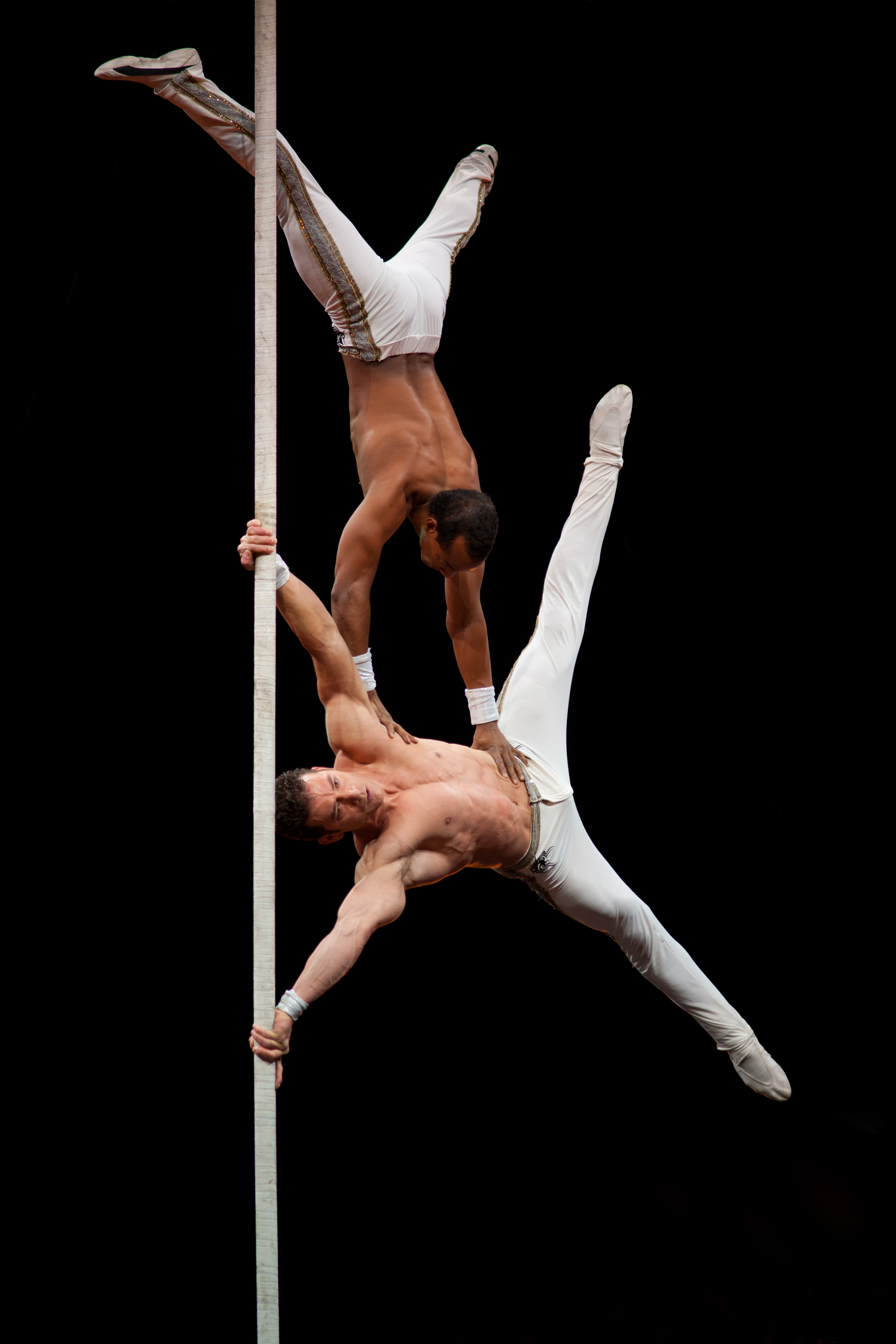 Leosvel Diosmani Cuban artists and the Chinese pole. Grenoble six days of cycling 2011.